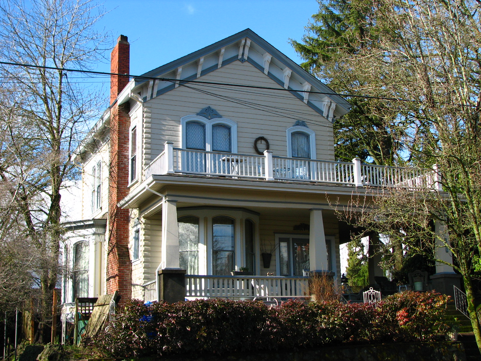 The historic Harvey Cross House (built ca. 1888), located at 809 Washington Street in Oregon City, Oregon, United States, is listed on the US National Register of Historic Places.